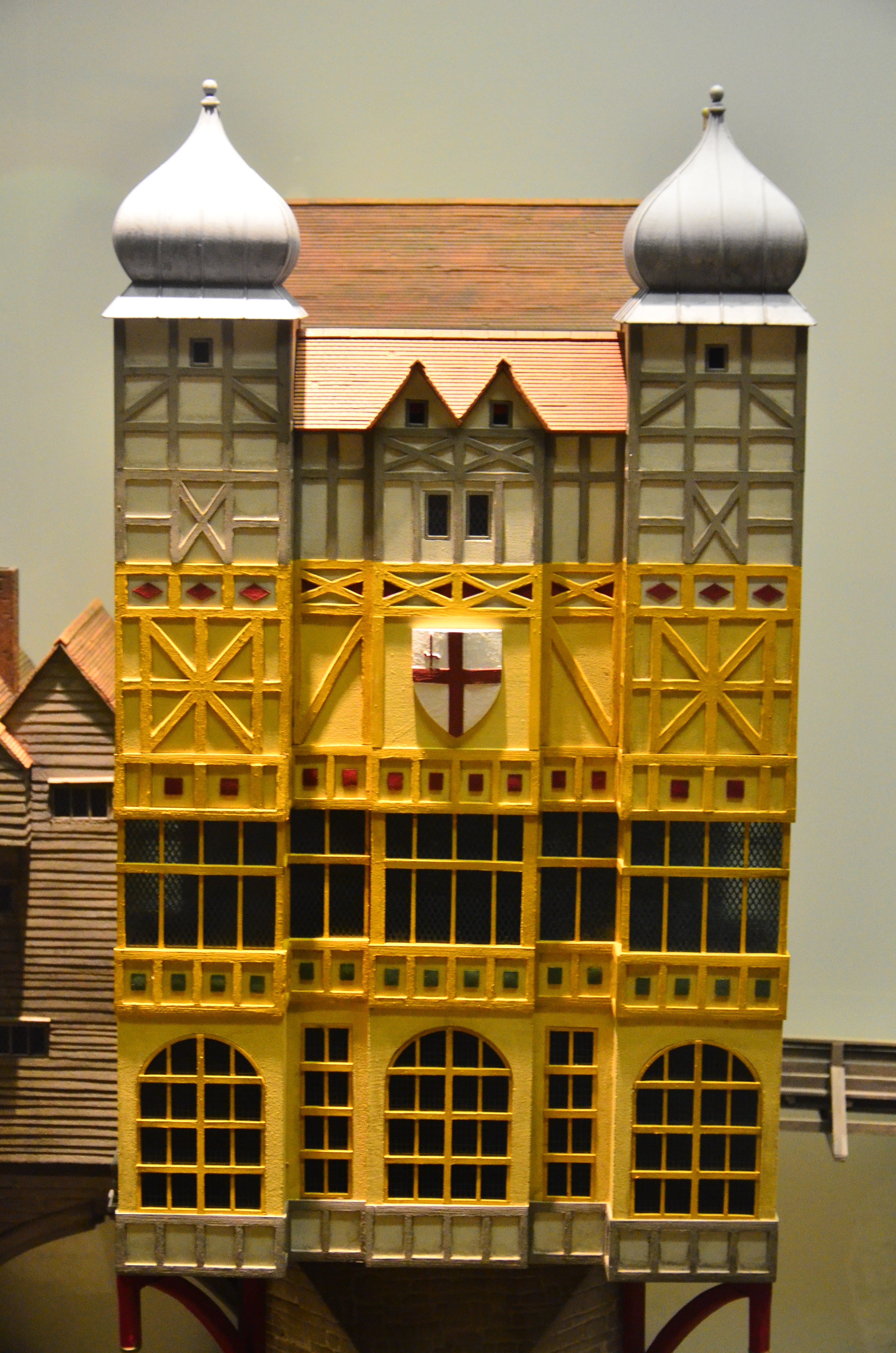 Nonsuch House on London Bridge model at Docklands Museum at London. The first ever prefabricated building.